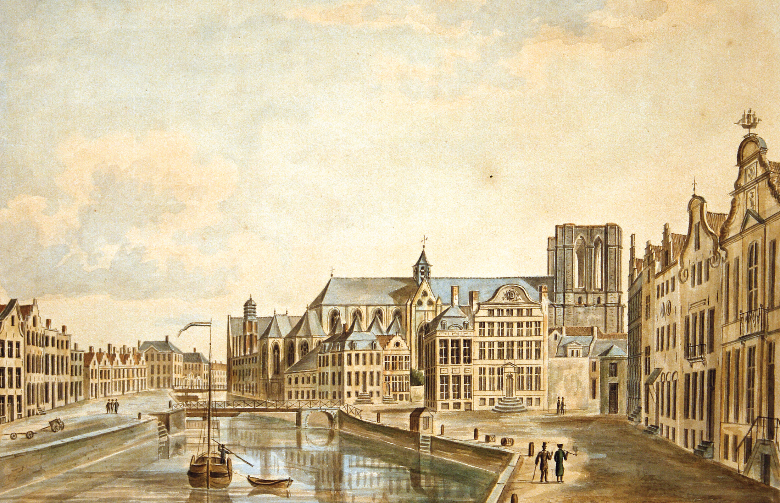 Grasleikorenlei_1820-1823.jpg